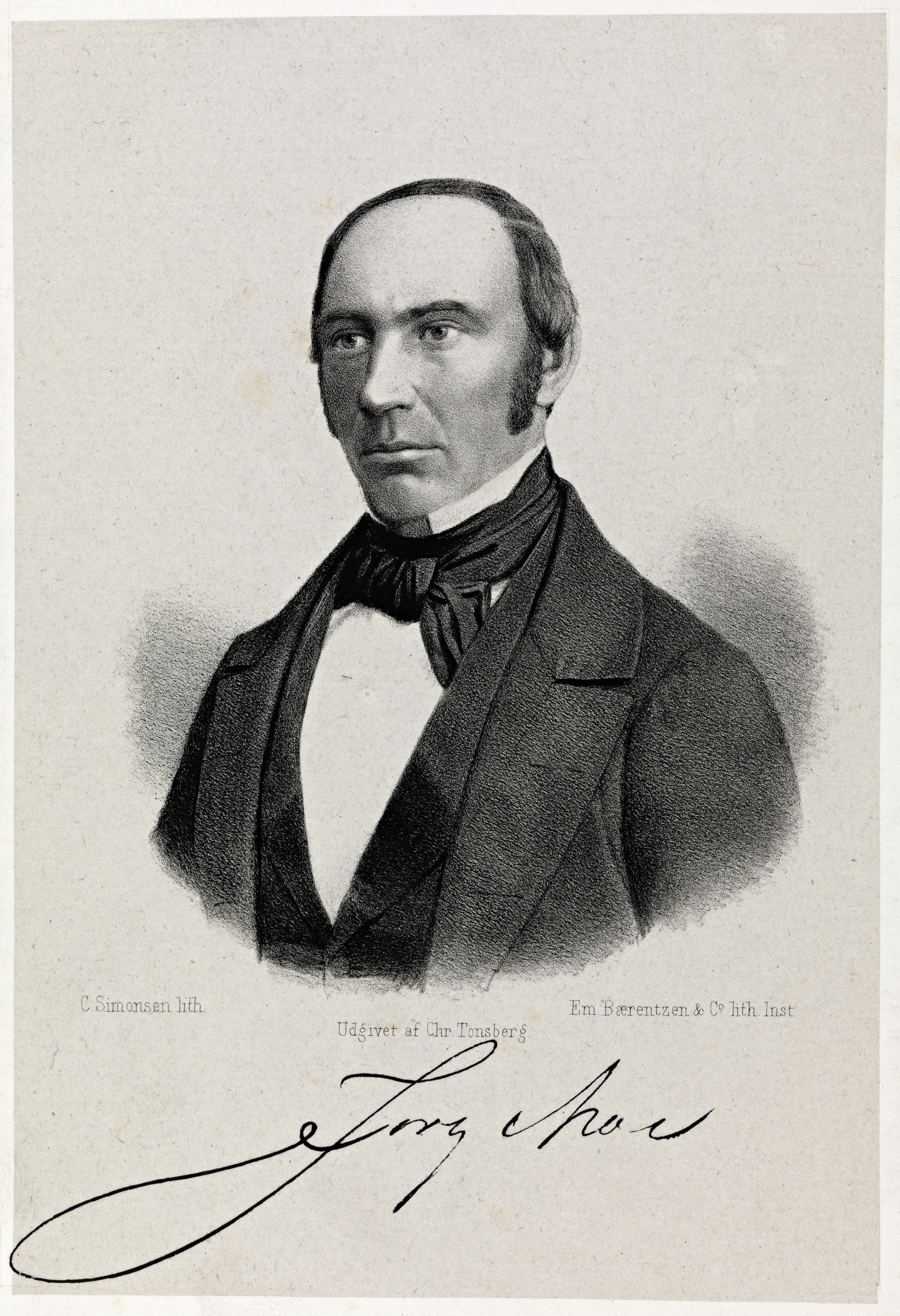 Beskrivelse / Description: Jørgen Moe var forfatter, folkeminnesamler og geistlig. Dato / Date: ukjent / unknown Kreditering / Credit: C. Simonsen lith., Udgivet af Chr. Tønsberg, Em. Bærentzen & Co. lith. Inst. Digital kopi av original / Digital copy of original: litografi Eier / Owner Institution: Nasjonalbiblioteket / National Library of Norway Lenke / Link: Bildesignatur / Image Number: blds_06269